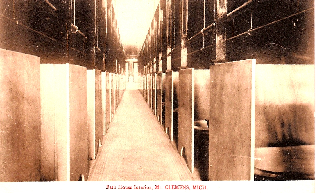 Mt. Clemens Bath House post card, circa 1910